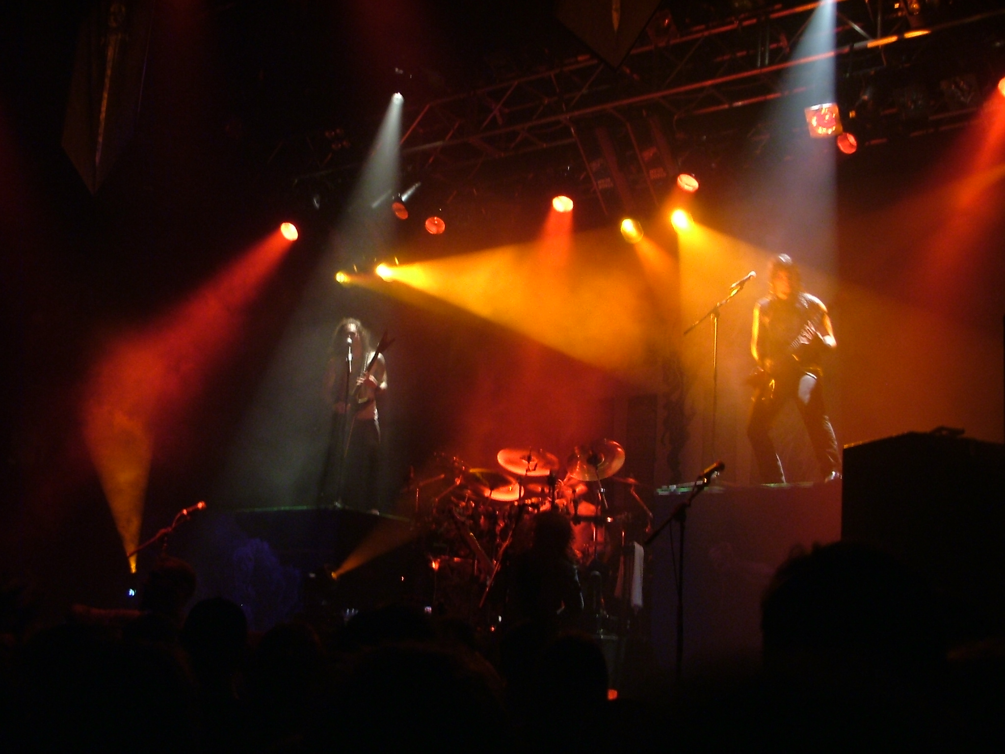 US-american thrash metal band Trivium at a concert in Linz